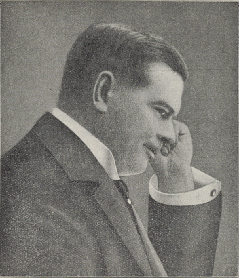 Charles Urban, cinematography pioneer.